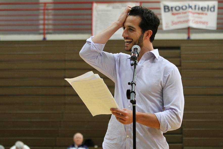 Tony Reali at Special Olympics DC May 21, 2013.